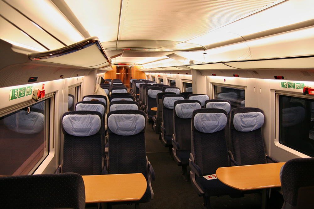 2nd class car interior of an ICE-TD